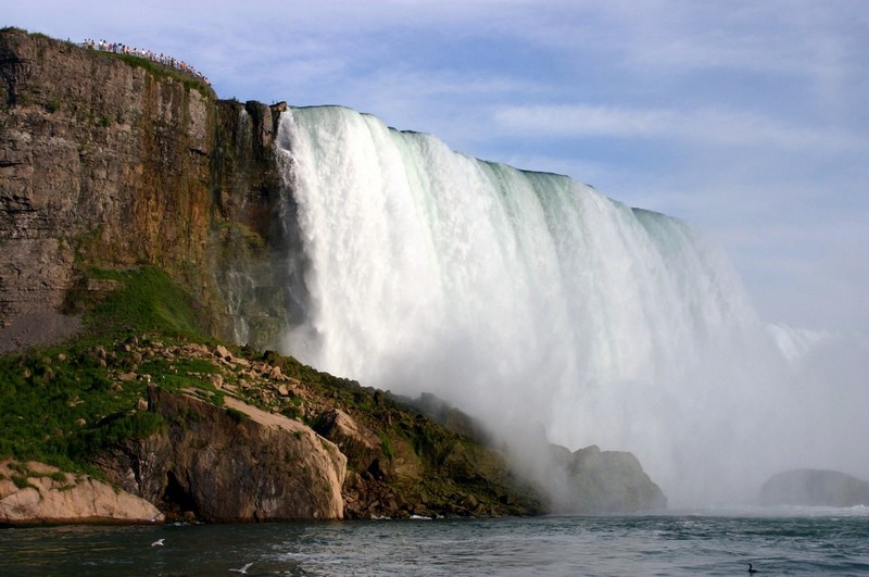 Amazing Niagara falls in Canada